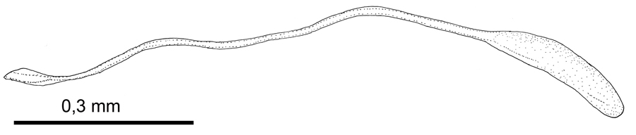 Sketch of egg from Ibalia rufipes.